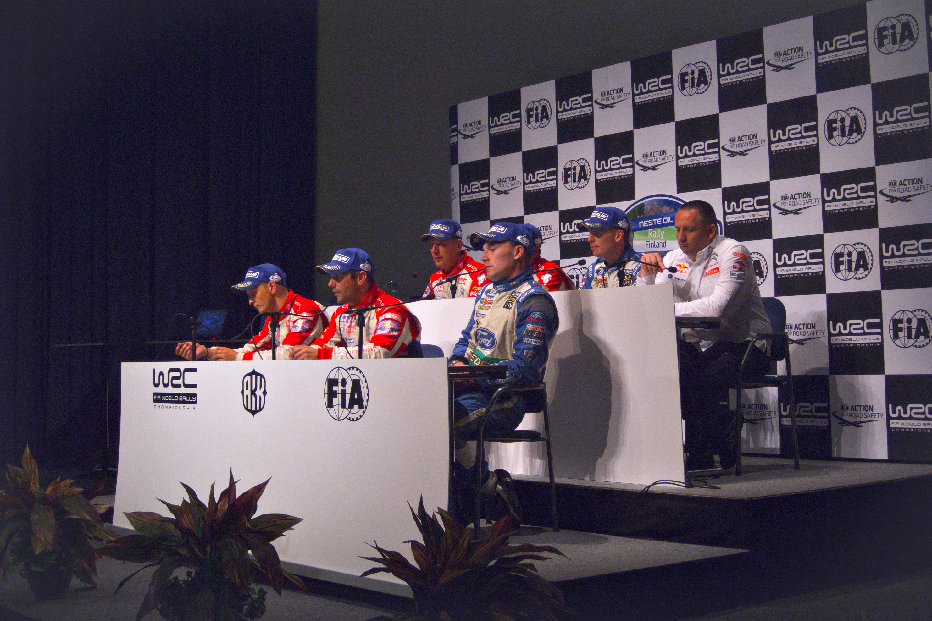 The podium and press conference of the 2012 Rally Finland.